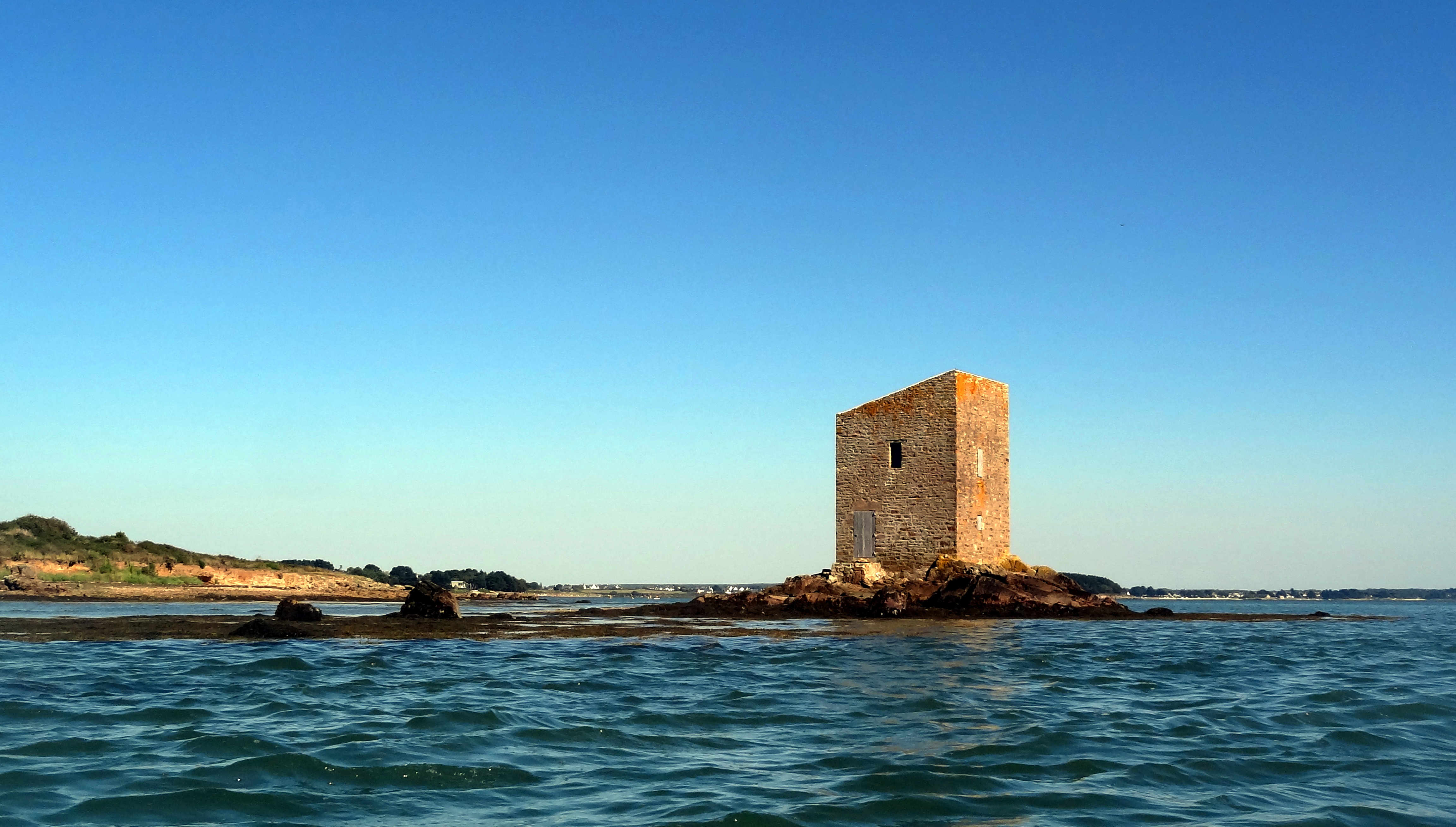 The Ténéro tower, located on the south-east cape of Boëd island, in the Golf of Morbihan (France). Called the "ruined tower" on SHOM nautical charts, even if restored since 2008.